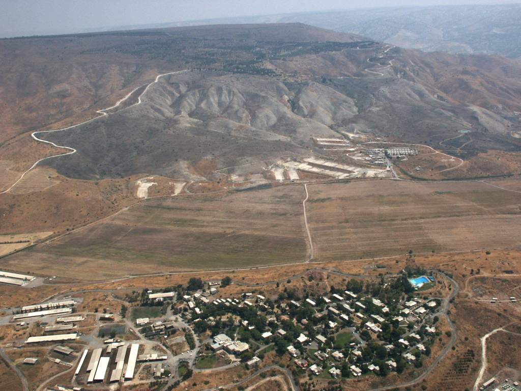 A picture of Kibutz Tel Katsir in Northeren Israel, near the Sea of Galilee.